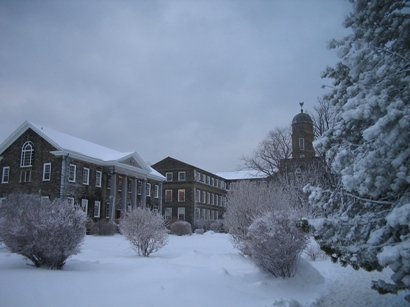 Photographer: John Clayton Rankin; Released under GNU; Dalhousie University, Halifax, NS January 2005